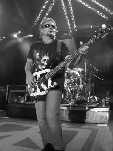 Michael Anthony doing a solo